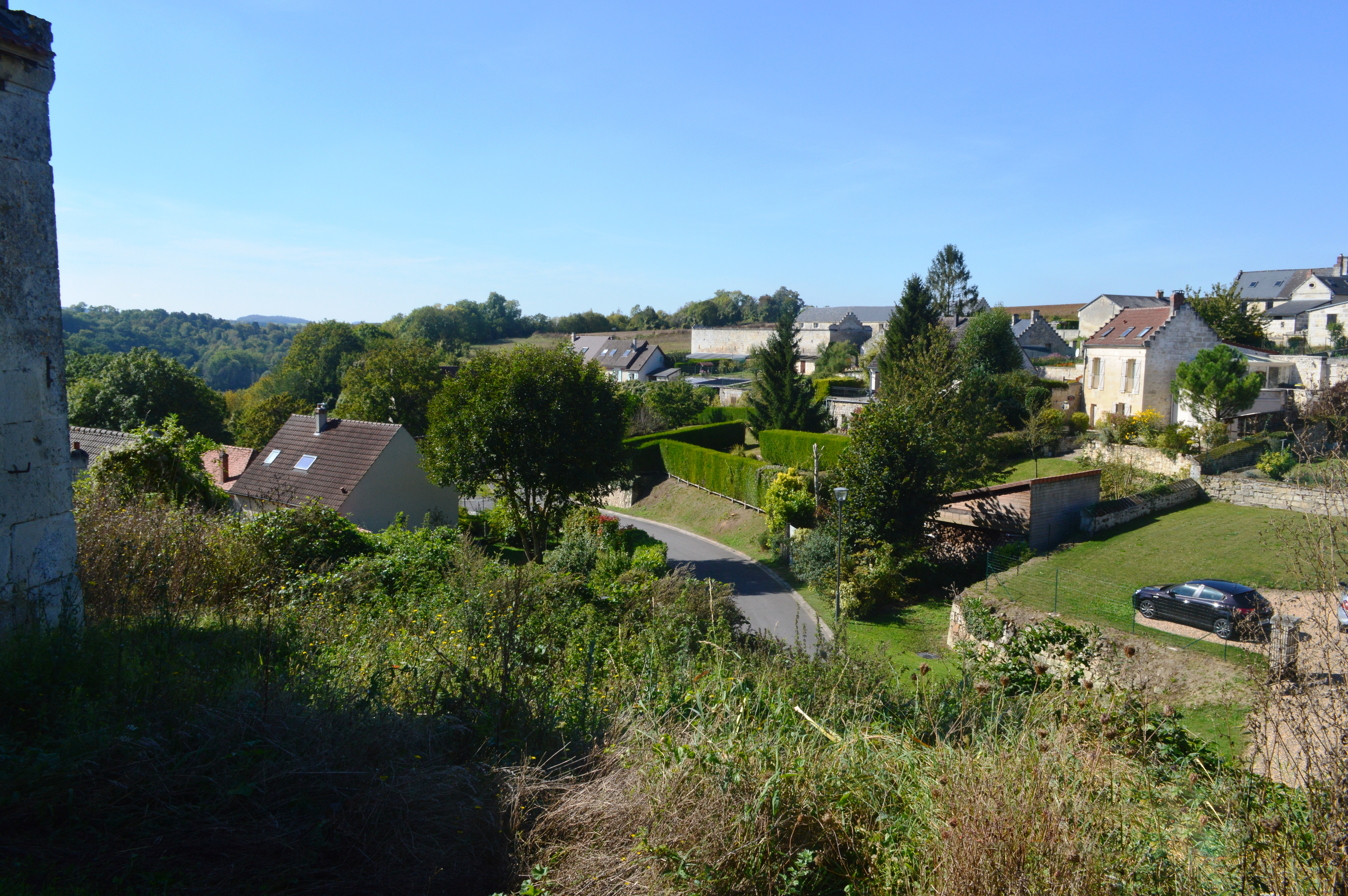 General View of Ambrief